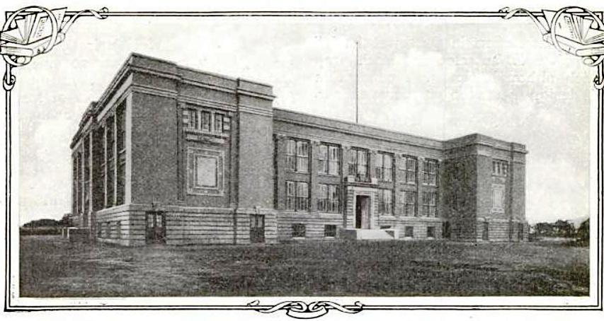 Photograph of the then-new Collinwood Elementary School, built after the prior building burned down with massive loss of life. The "new" school gave every classroom direct access to the ground.